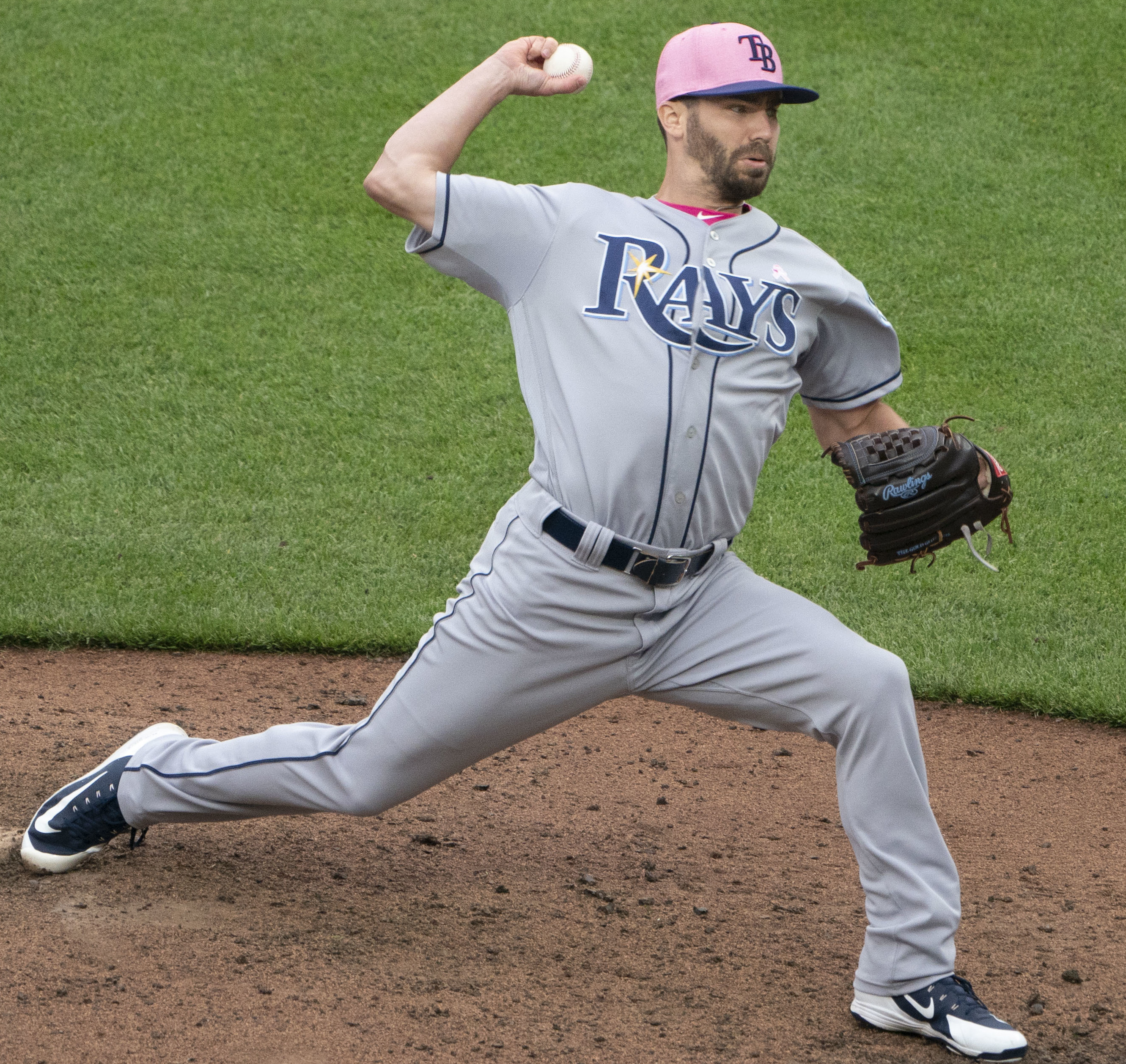 Rays at Orioles 5/13/18